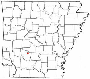 Locator map of Arkadelphia in Clark County, Arkansas.